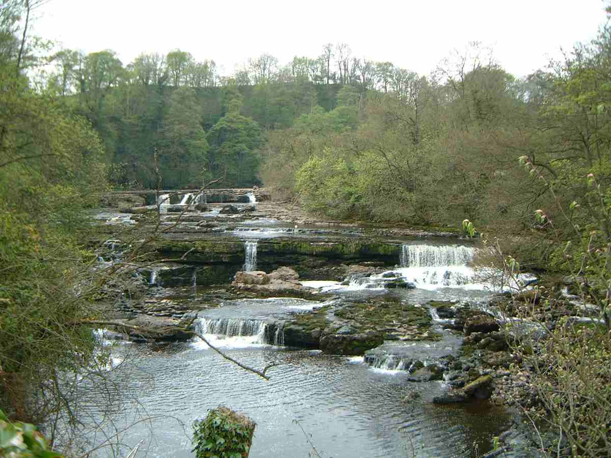 Aygarth Falls in the Yorkshire Dales Summary Personal photograph taken by Mick Knapton on May 6th 2006